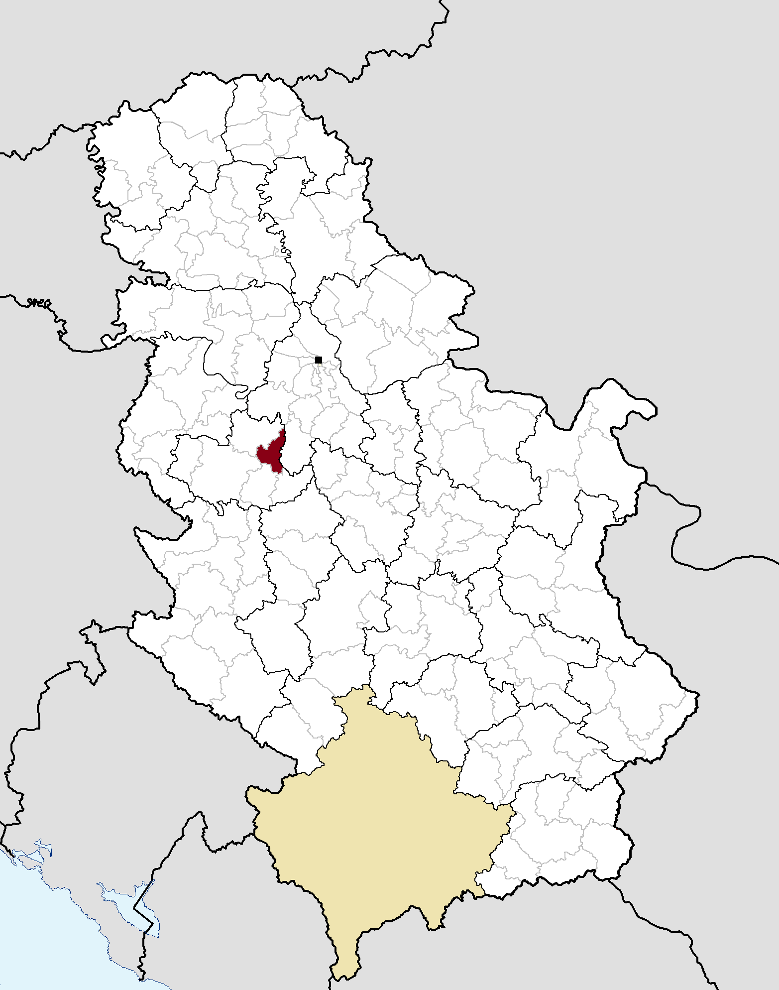 Municipal location in Serbia